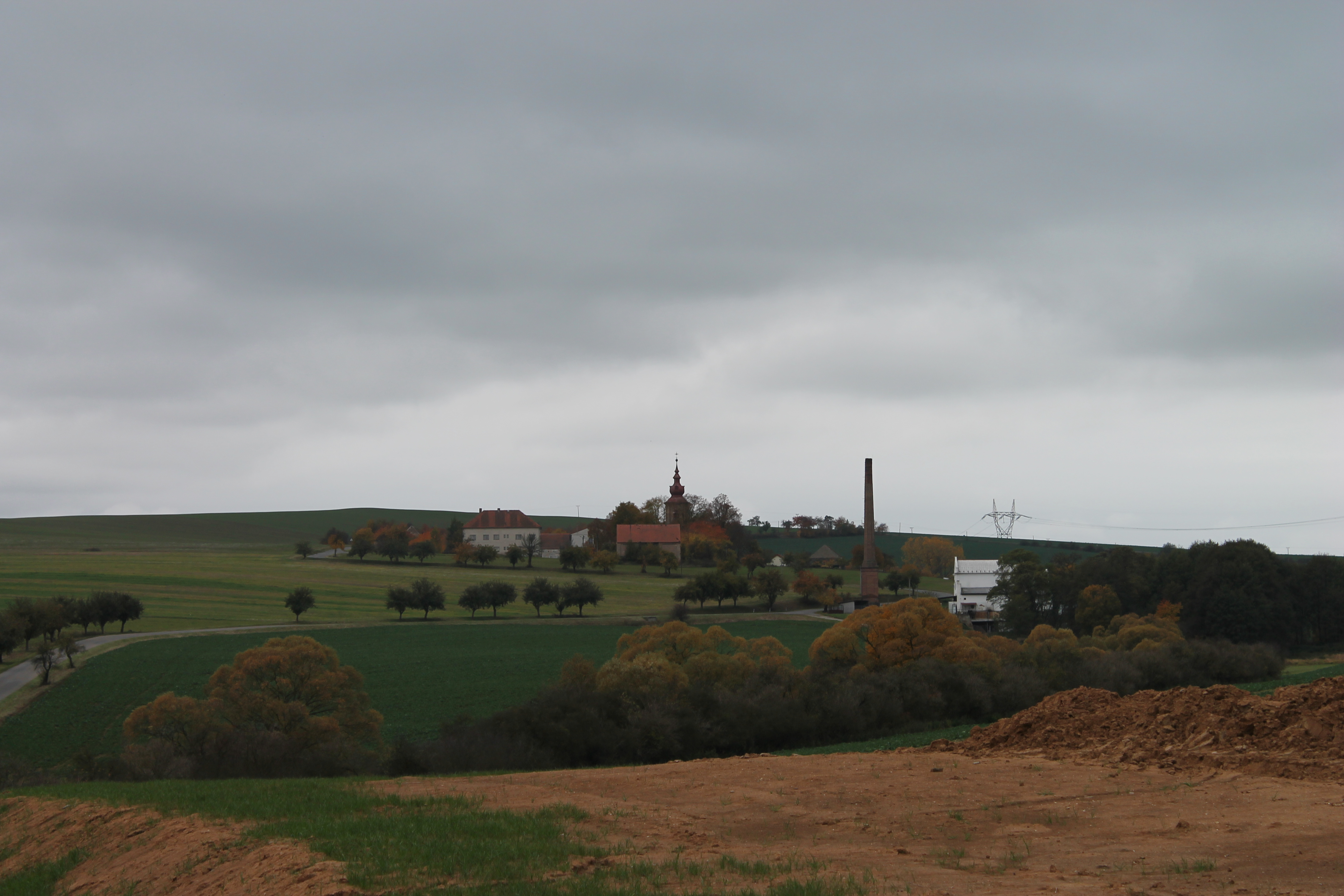 View of Vojenice from Kladruby